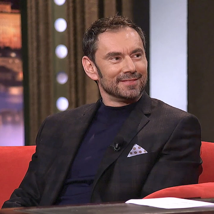 Emanuele Ridi—Italian chef living in the Czech Republic